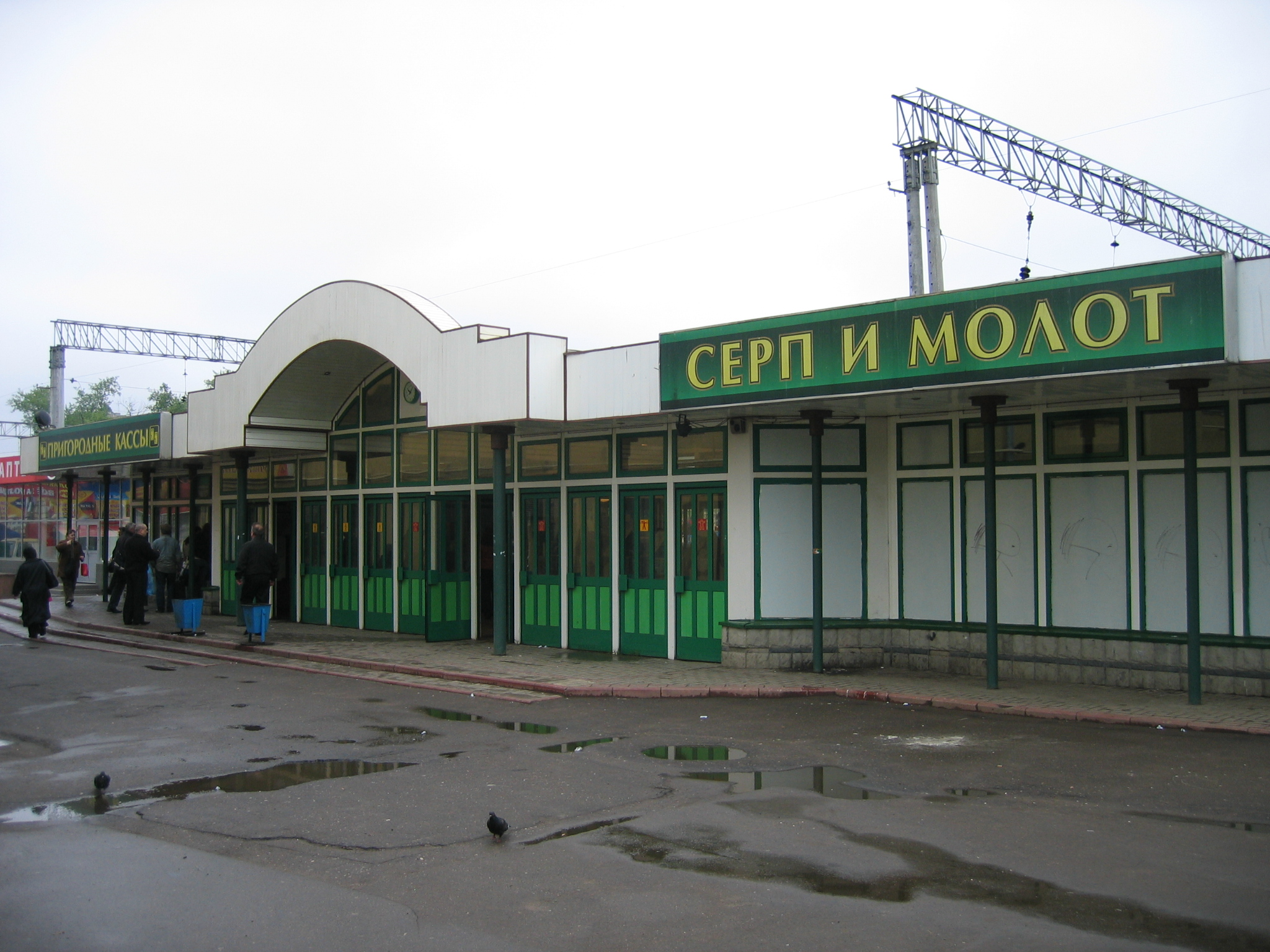 Serp i Molot station in Moscow